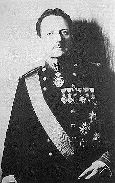 A highly decorated Captain Fritz Joubert Duquesne, wearing the Iron Cross he earned in 1916 for his role in sinking the HMS Hampshire and killing Lord Kitchener.